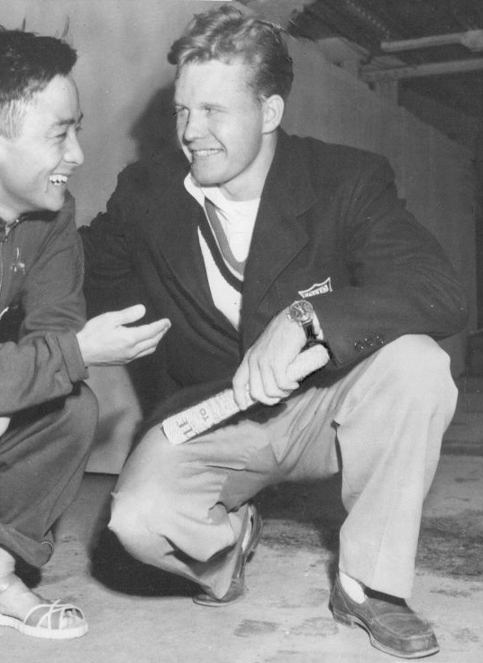 1948 England Dr Sammy Lee Gave Diving Advise to Miller Anderson Press Photo